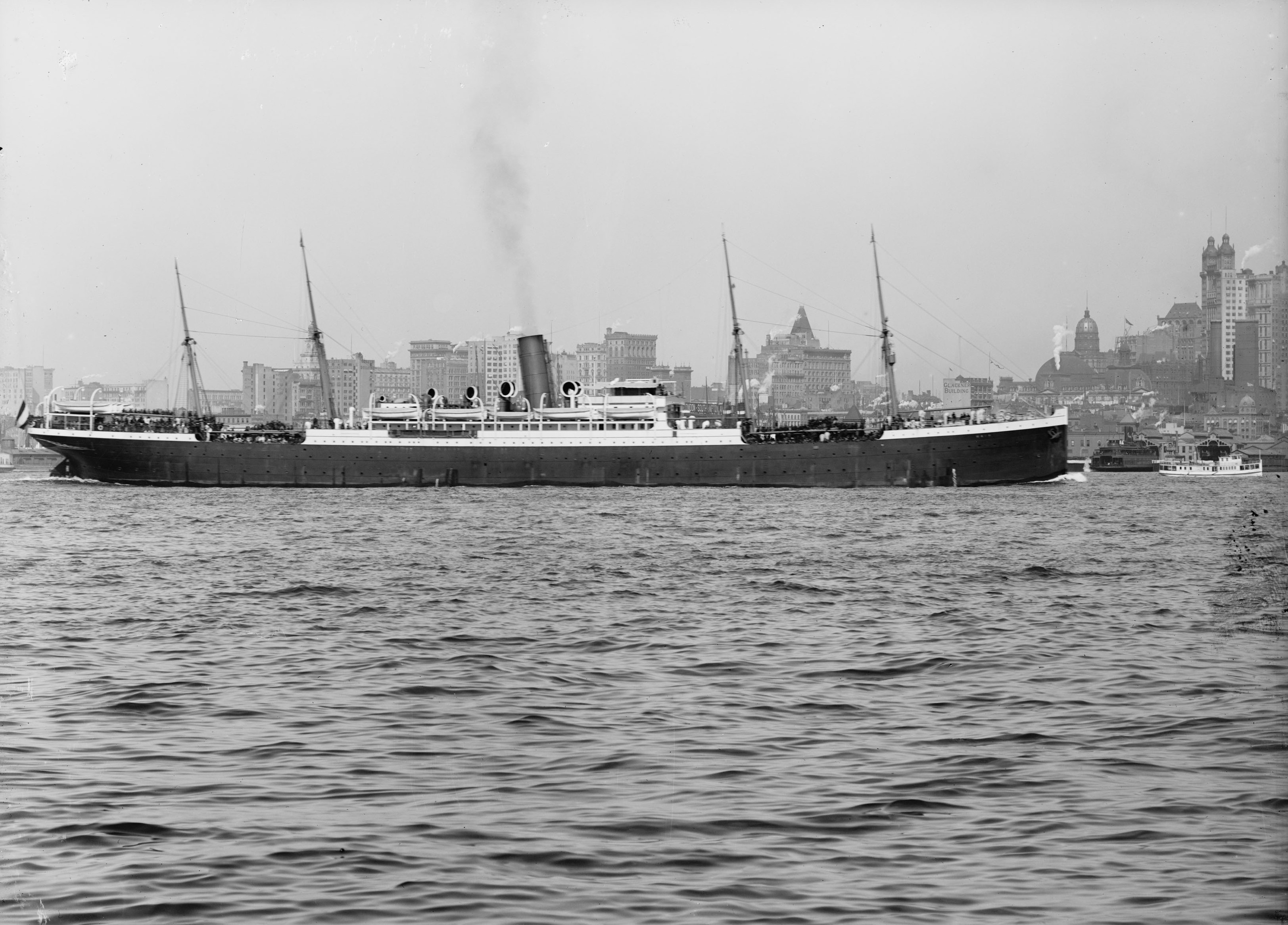 Original caption: “S.S. Main” Reproduction Number: LC-D4-22460 Medium: 1 negative : glass ; 8 x 10 in. Repository: Library of Congress Prints and Photographs Division Washington, D.C. 20540 USA